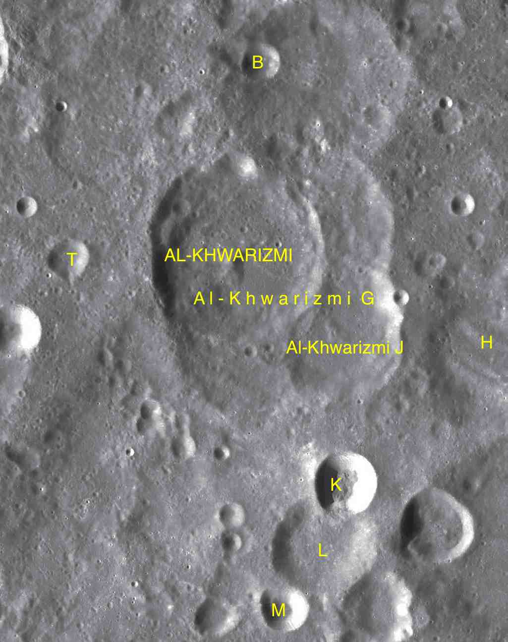 Part of the chart LAC-64 used for the presentation